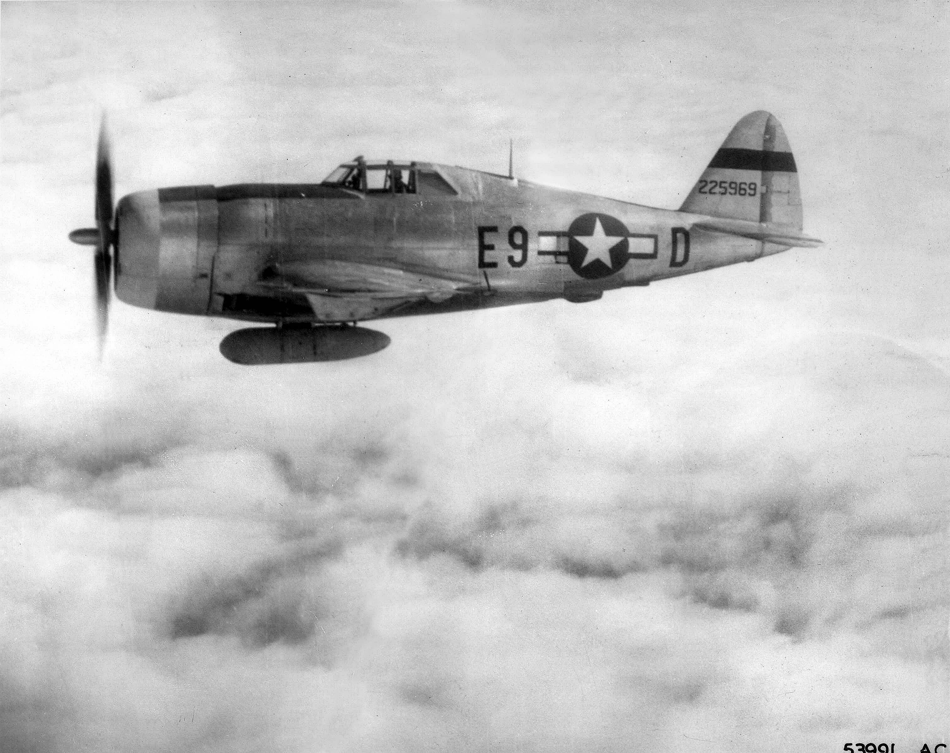 A USAAF Republic P-47D-22-RE Thunderbolt (s/n 42-25969) in flight. This aircraft was originally assigned to the 8th AF / 361st FG / 376th FG (E9-D) flown by Capt. John D.Duncan. Later lost on 3 August 1944 while being assigned to the 8th AF / 56th FG / 63rd FS . When assigned to the 56th FG its markings were (UN-S) and the pilot Lt. Roach Stewart Jr. was KIA MACR 7448